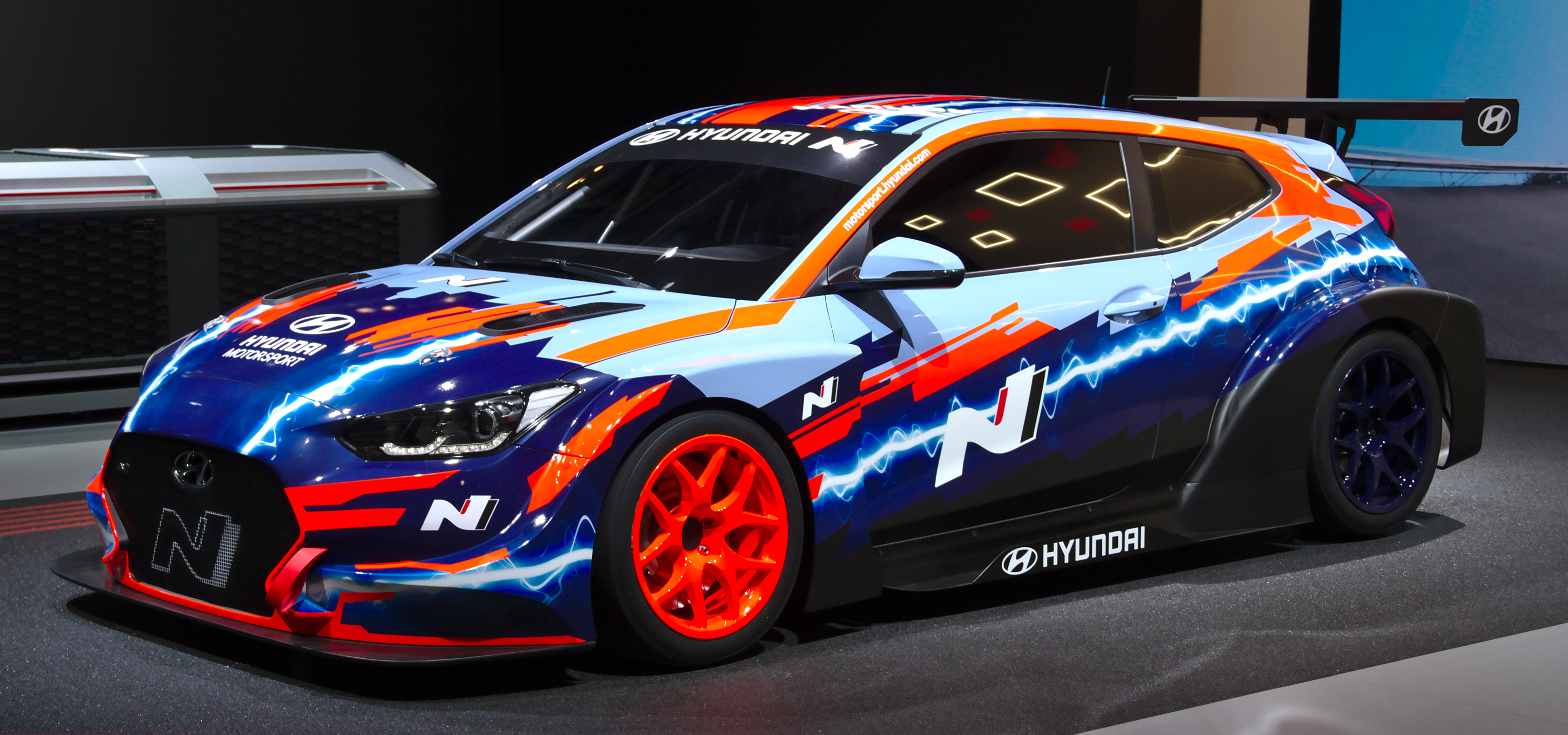 Hyundai_Veloster_(JS)_N_ETCR at IAA 2019